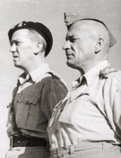 Gustaw Paszkiewicz (1892-1955) and Bronisław Rakowski (1895-1950) – Generals of the Polish Army